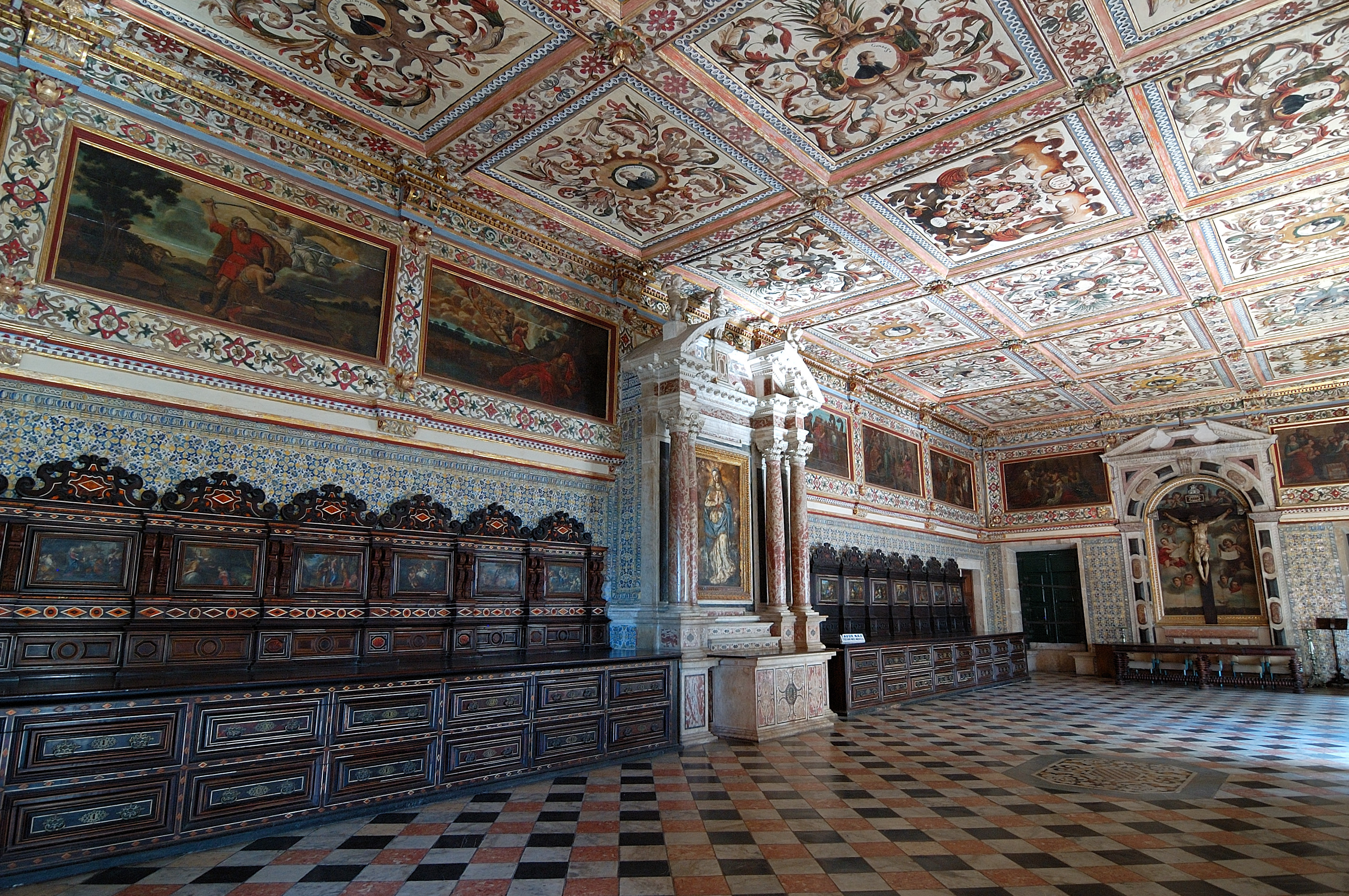 Sacristy of the former Jesuit Church (now Cathedral) of Salvador, Bahia, Brazil